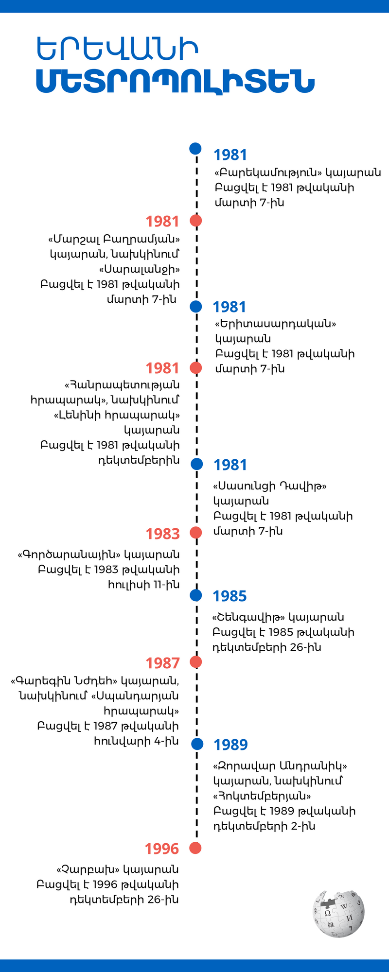 Map of the Yerevan Metro